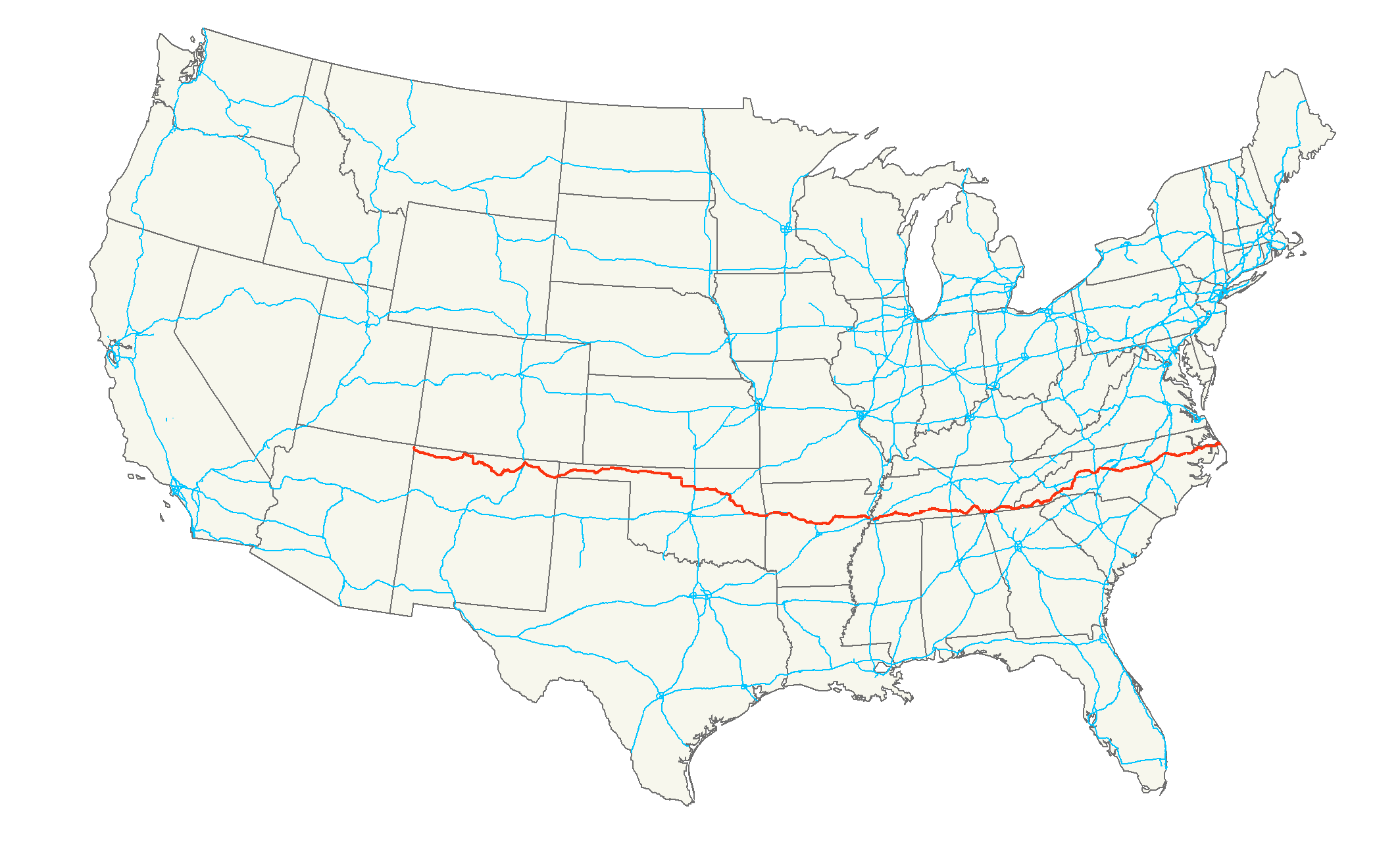 Map of U.S. Route 64